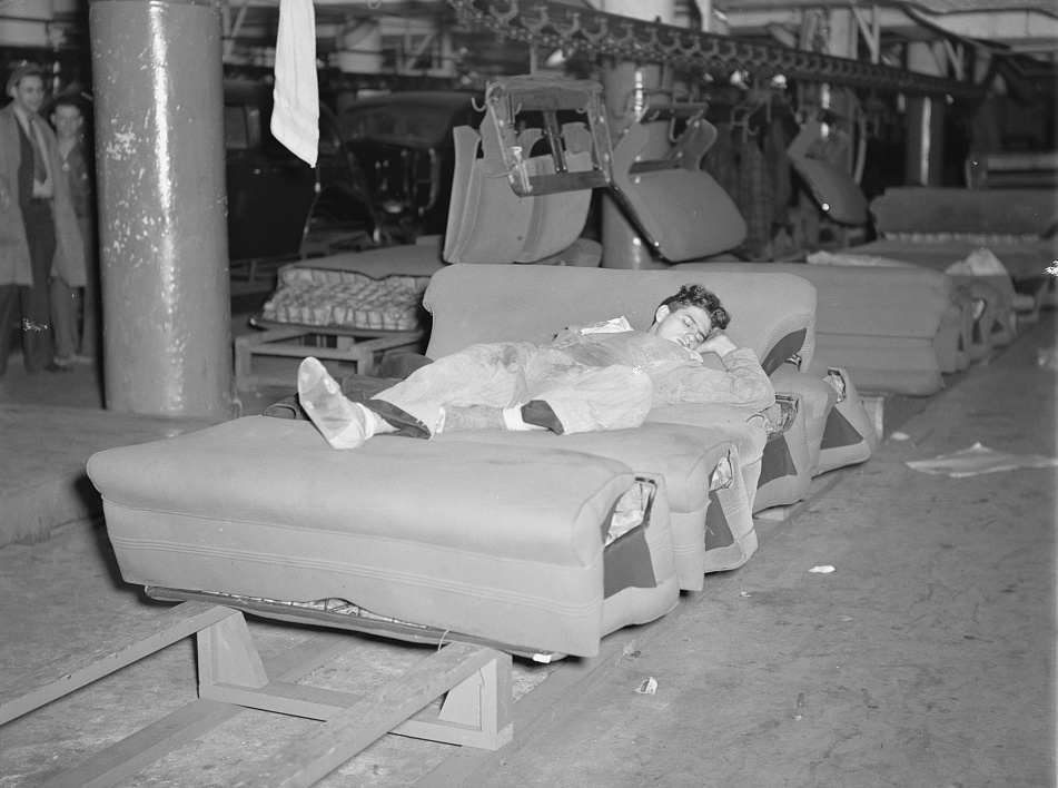 Young striker off sentry duty sleeping on assembly line of auto seats in Fisher body plant factory number three. Flint, Michigan.